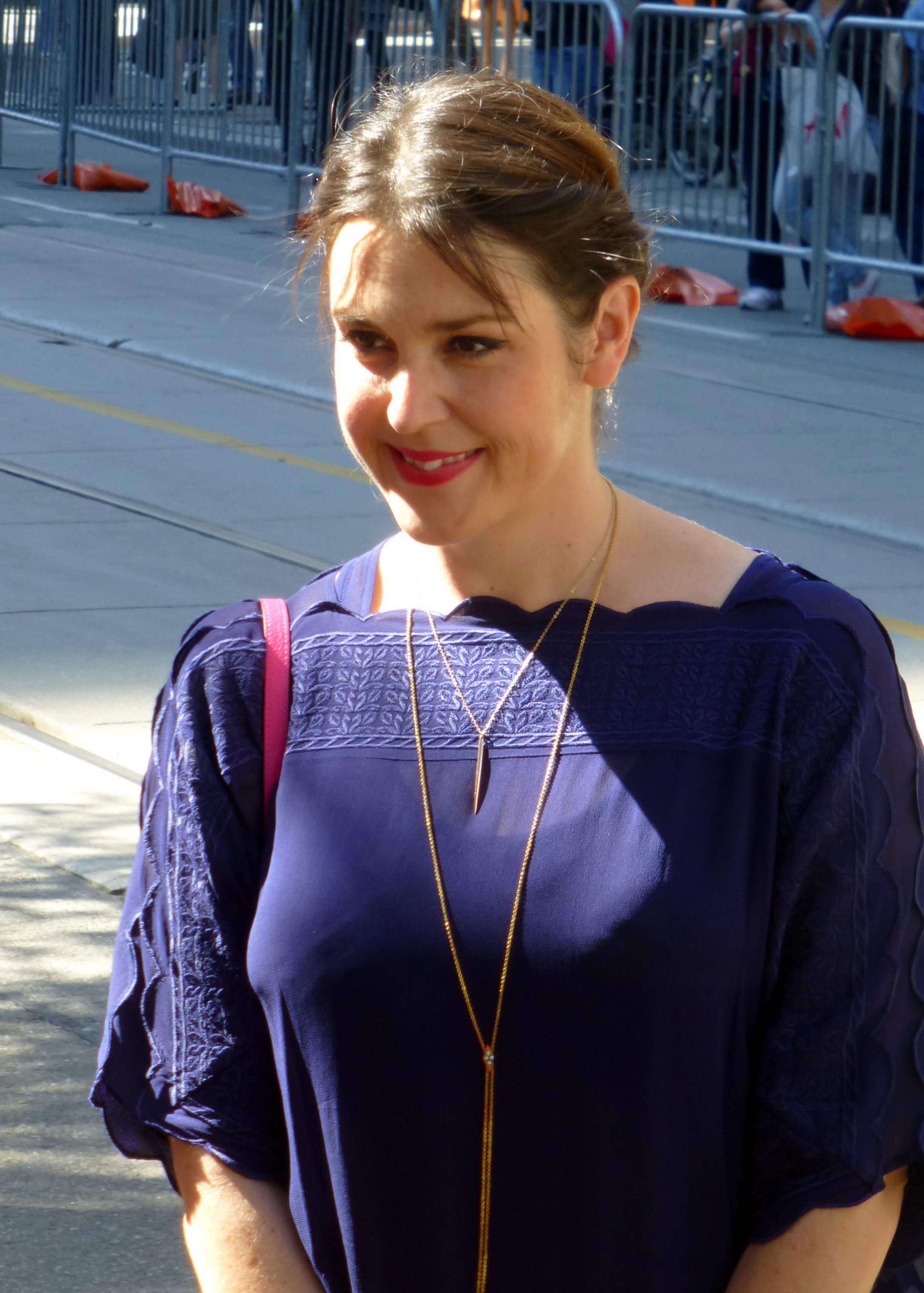 Lynskey at Meddler Film Festival 2015